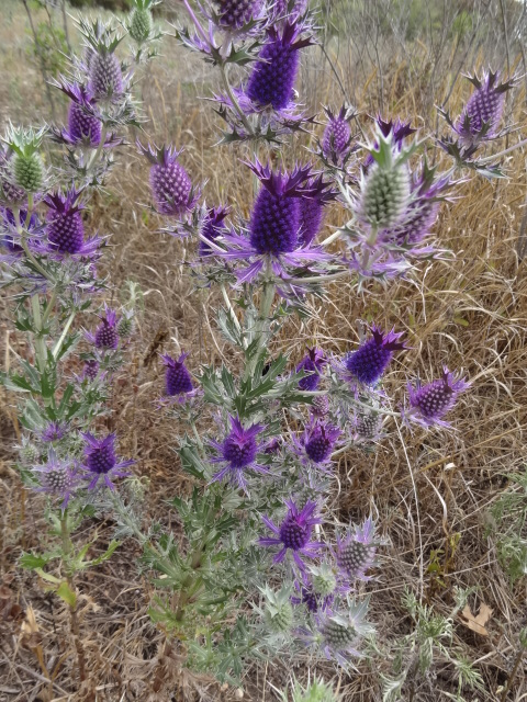 Leavenworth eryngo (Eryngium leavenworthii) at Marais des Cygnes National Wildlife Refuge. Credit: Amy Coffman / USFWS